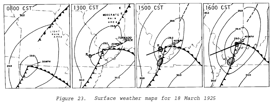 Surface weather composites for 18 March 1925, the day of the Tri-State Tornado outbreak.